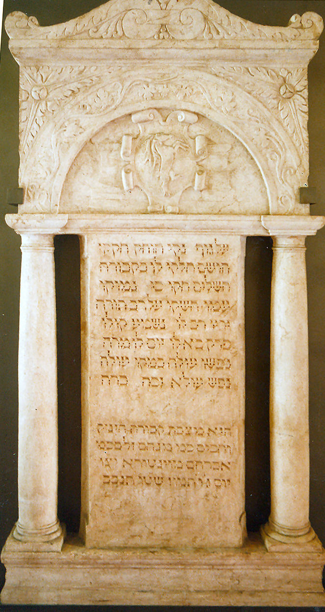 16th century Jewish gravestone in the Medieval museum in Bologna, Italy, showing Ventura crest.